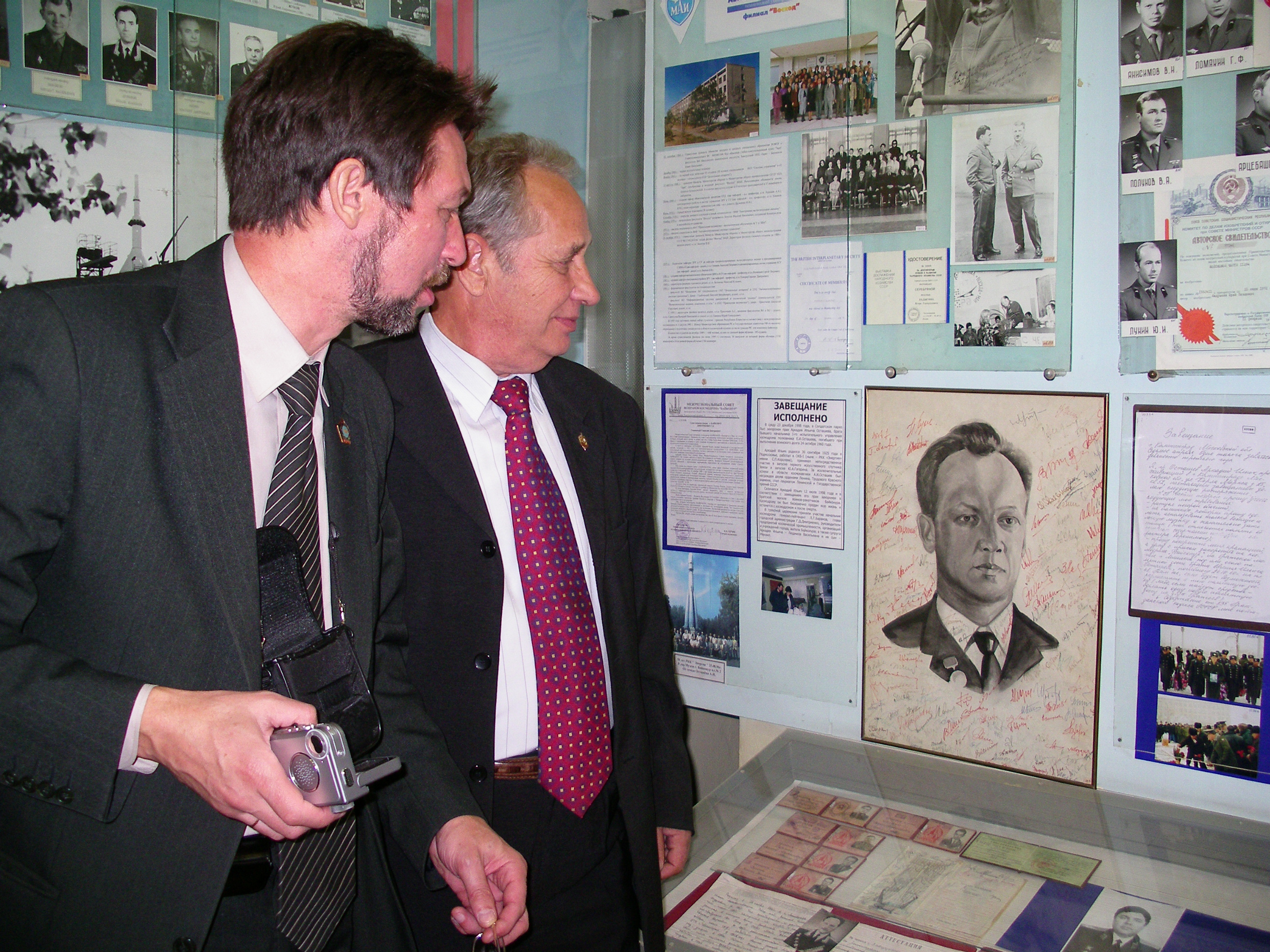 In the Museum at the site № 2 of the Baikonur cosmodrom, exposition dedicated to A.I. Ostashev